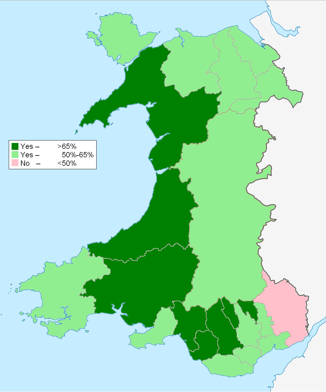 Map of the results of the Welsh Devolution Rferendum 2011.